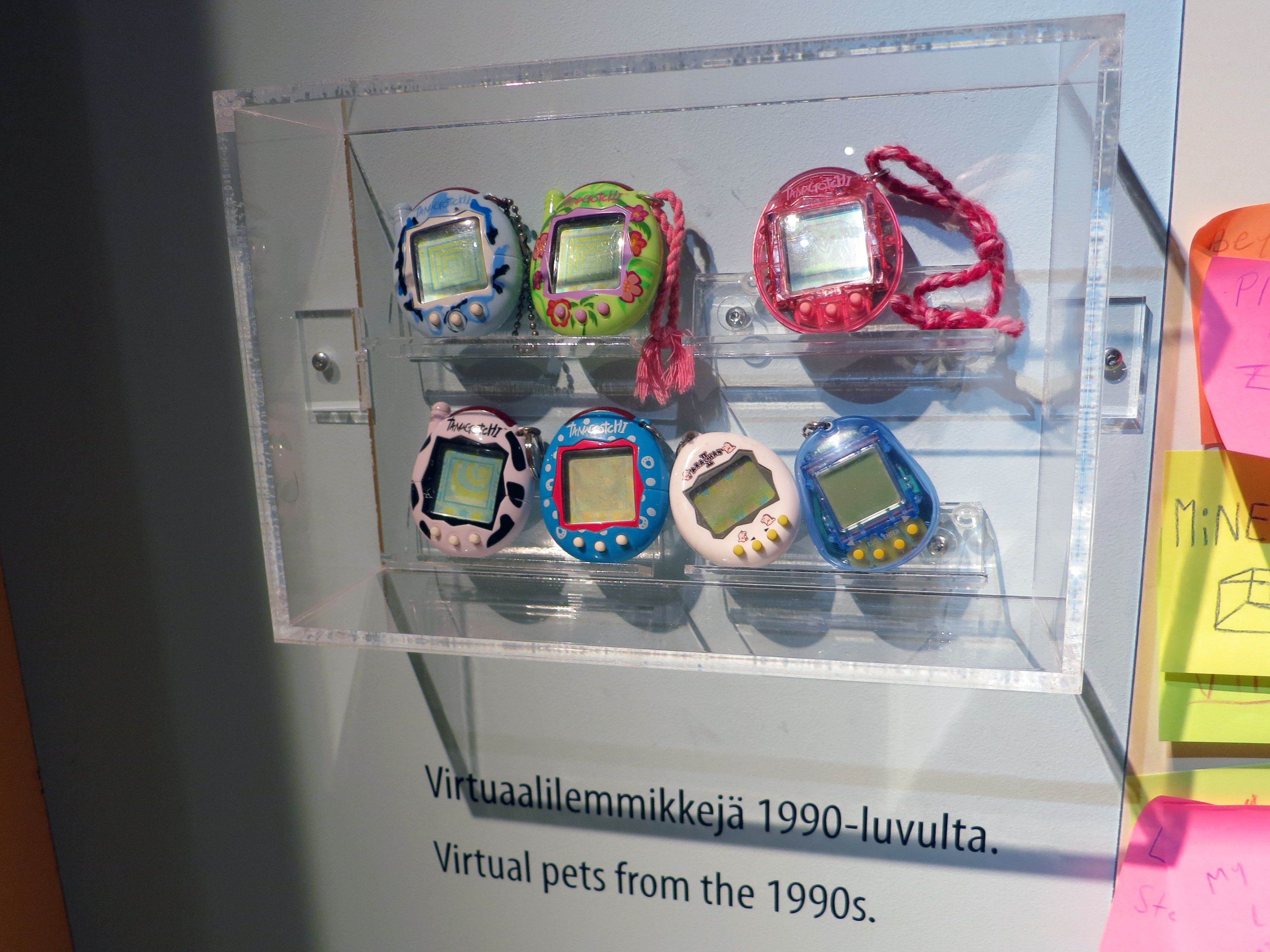 Tamagotchis and other virtual pets on display at the Rupriikki Media Museum (Tampere, Finland).